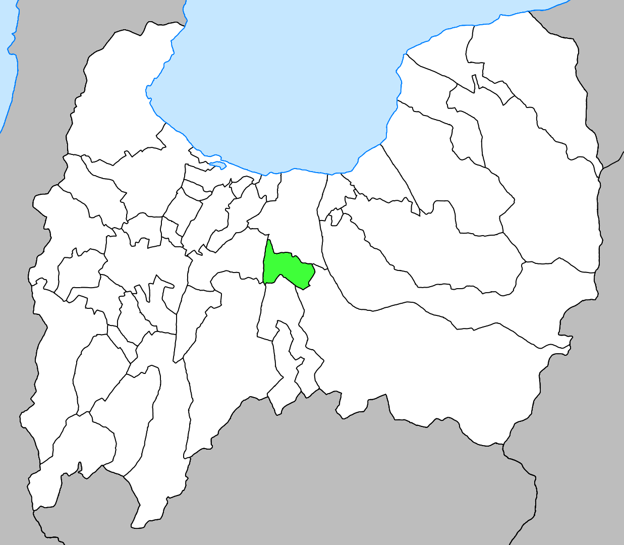 Map of Hunan-mura, Toyama Prefecture